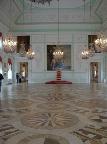 French style interior.